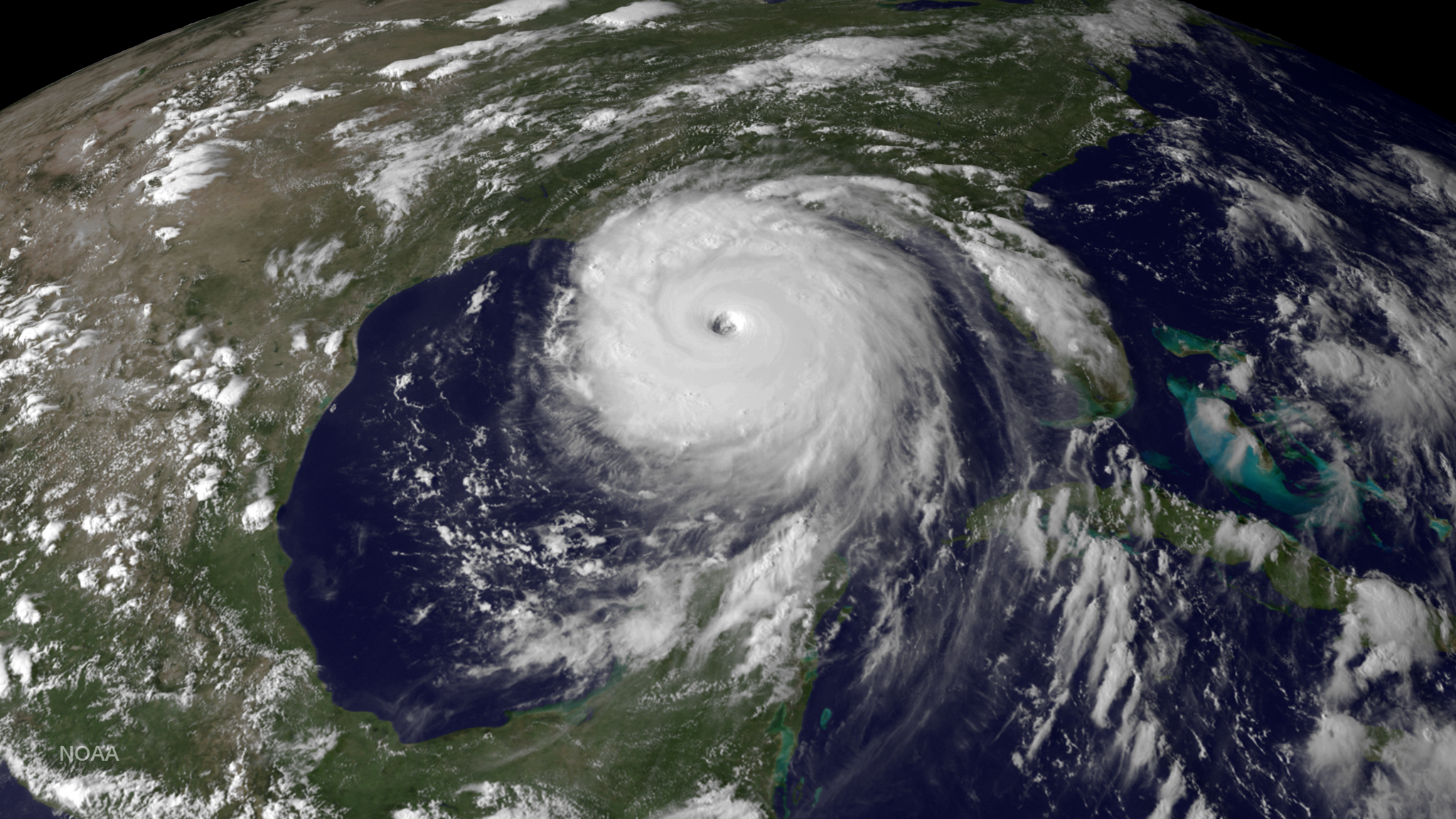 Hurricane Katrina approaching the Gulf Coast. This image was taken by GOES East at 2115Z on August 28, 2005.